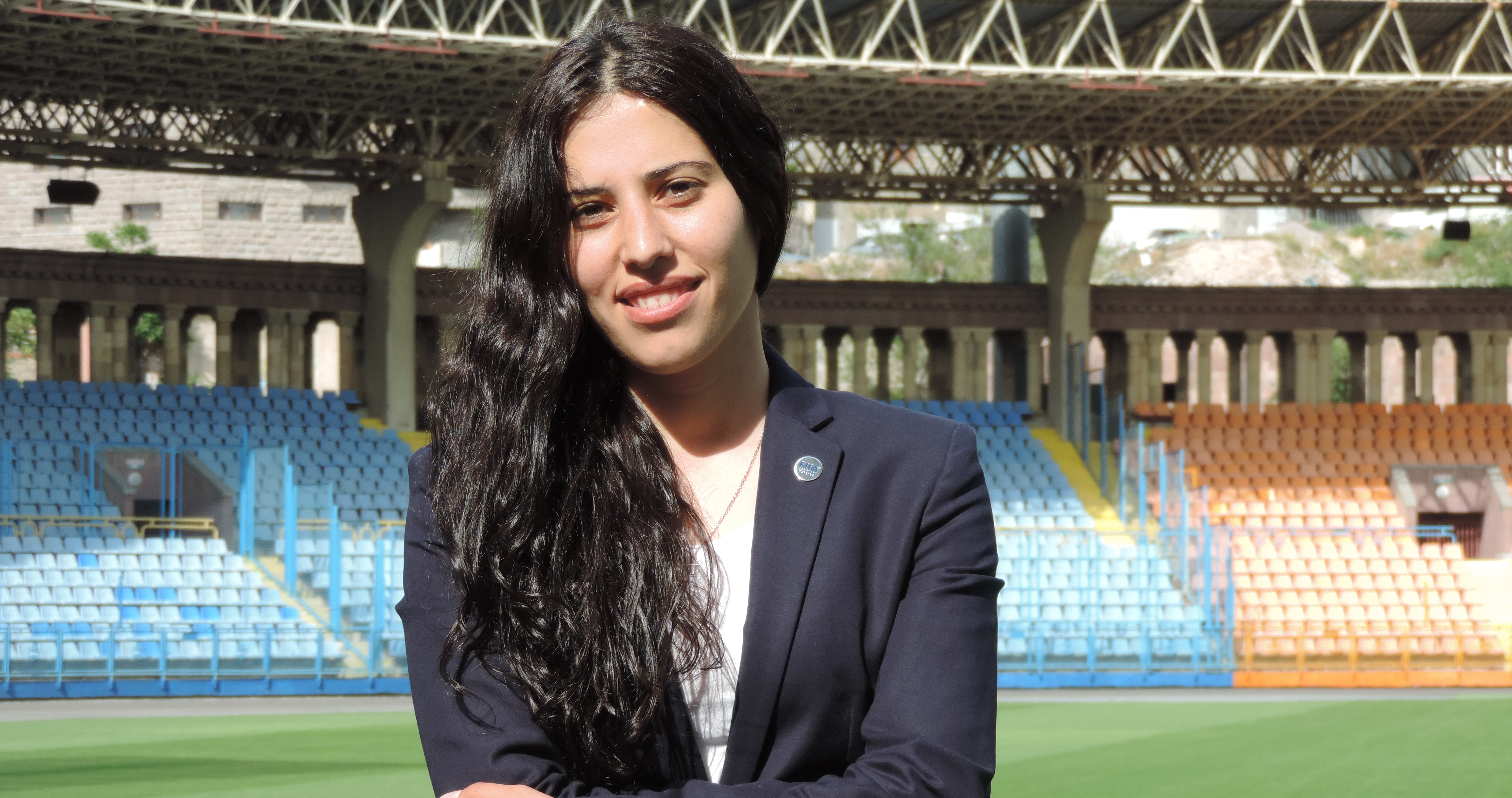 Mariam Stepanyan is an Armenian professional footballer